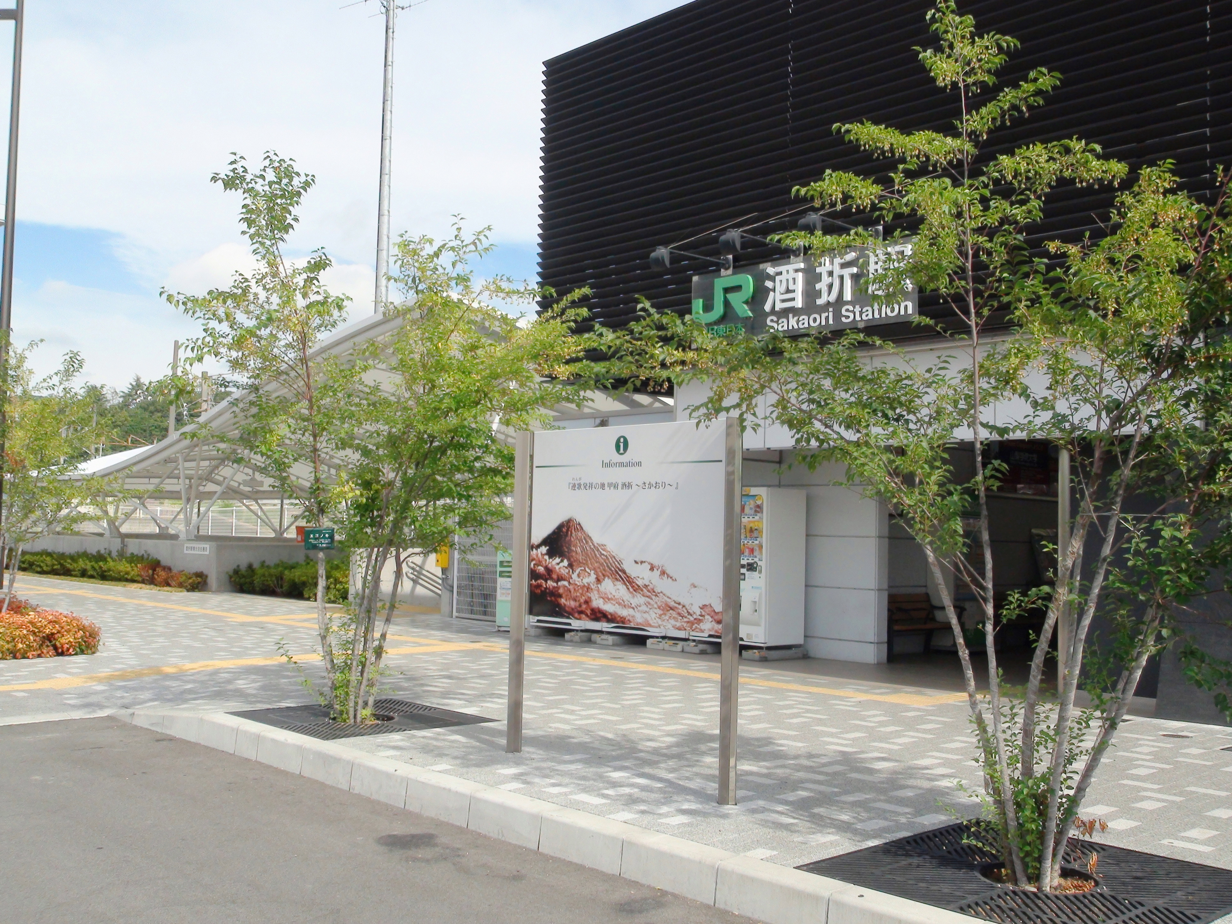 The whole view of JR East Sakaori Station(East Japan Railway Company)